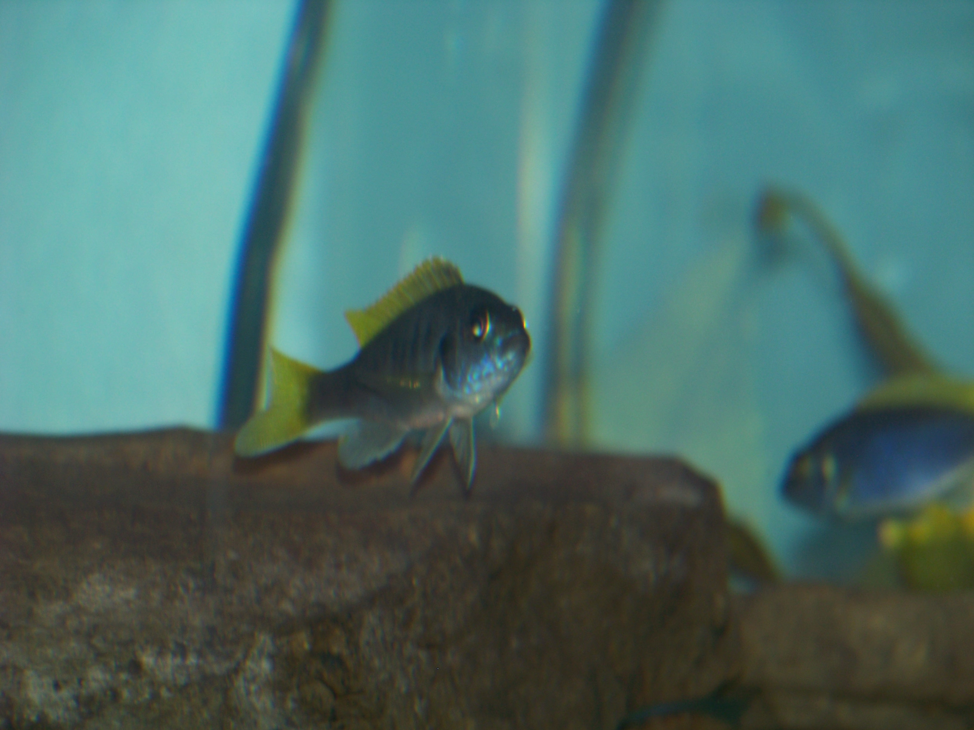 This is a picture of a Pseudotropheus sp. acei. It is in a 55 gallon tank.